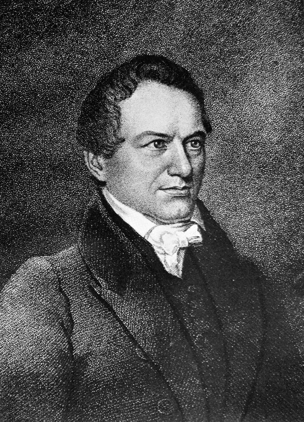 Robert Young Hayne (1791–1839), an American political leader.